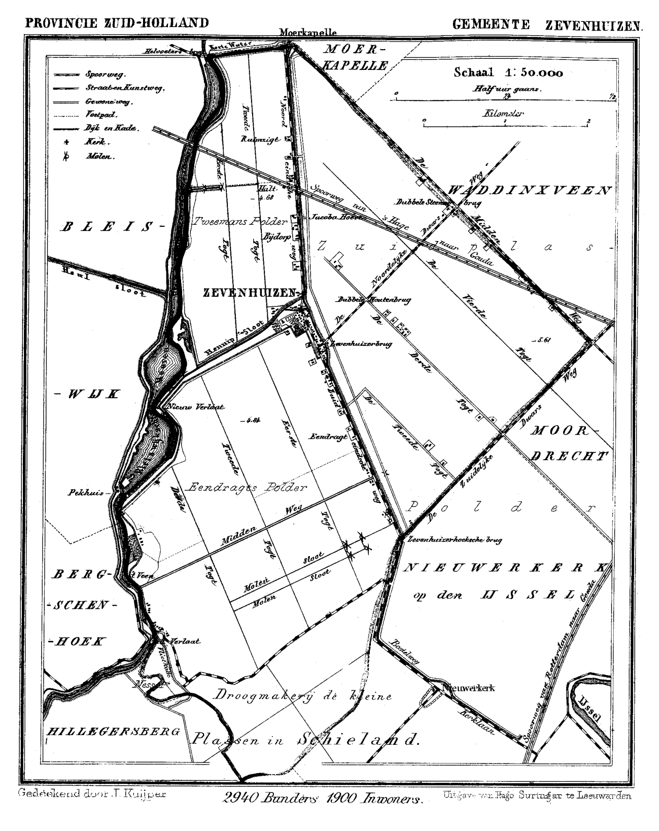 Historic map of Zevenhuizen (now part of municipality Zevenhuizen-Moerkapelle), South Holland, the Netherlands